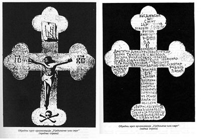 Ritual cross the Black Hands.